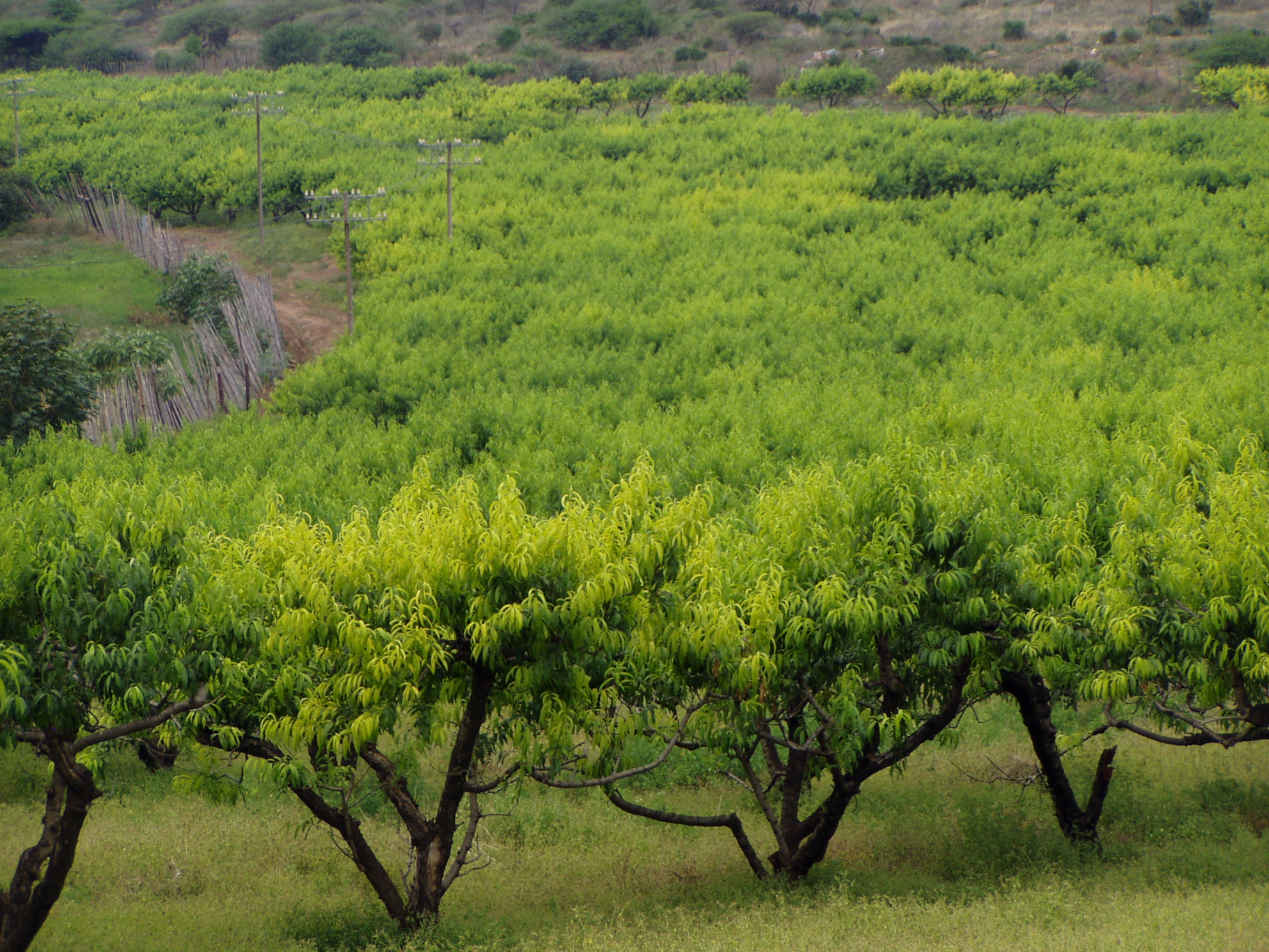 Iron deficiency symptoms on peach trees growing on calcareous (alkaline) soils; lime-induced iron chlorosis. Taken at Muden, KwaZulu-Natal; climate is semi-arid, subtropical.